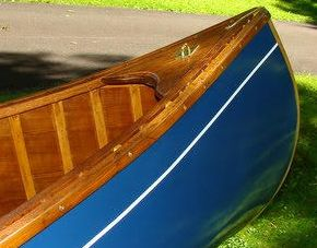 Deck of Thompson Hiawatha owned and restored by Fred Capanos